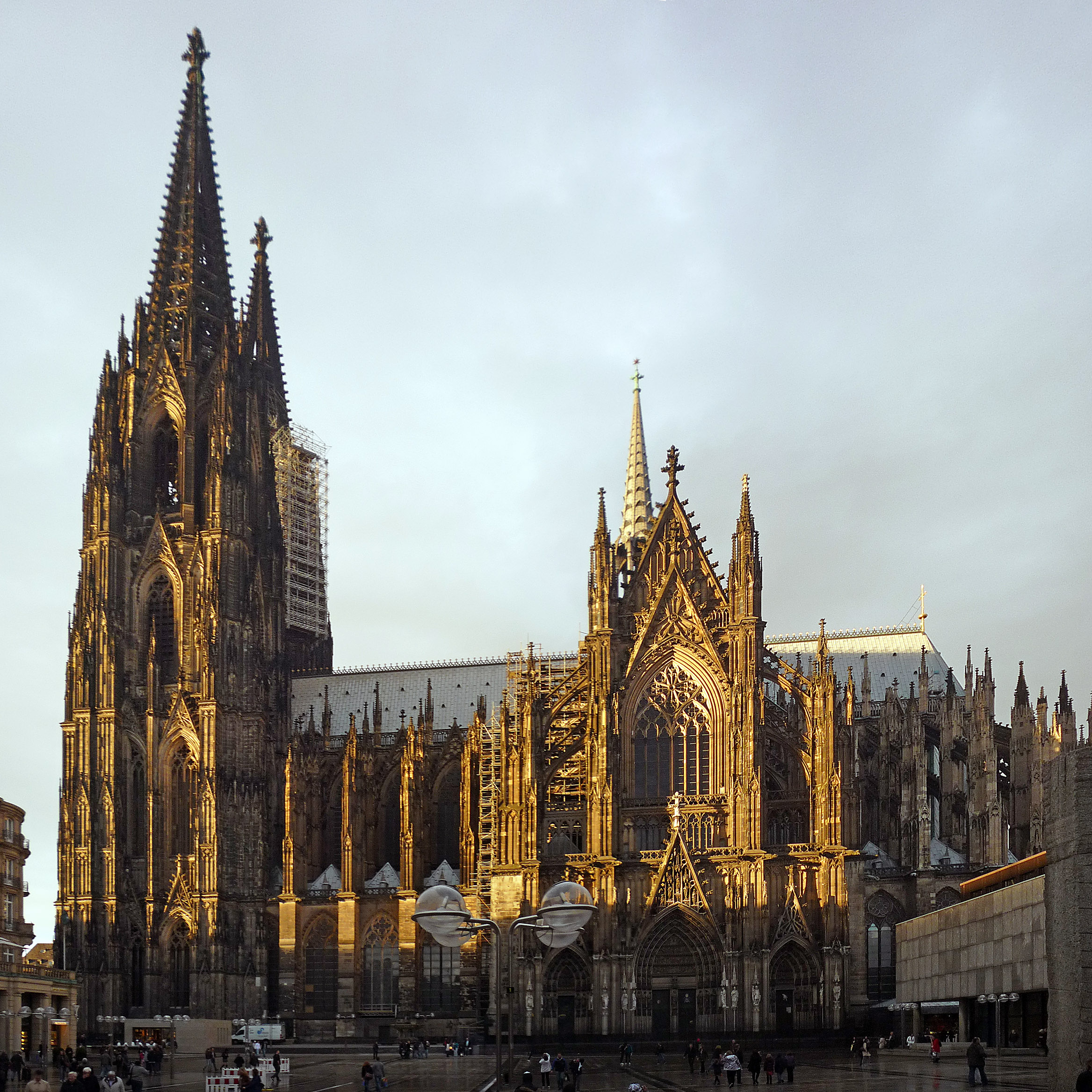 South facade of Cologne cathedral (Köln Dom + Röm-Museum_3cb-Fh)